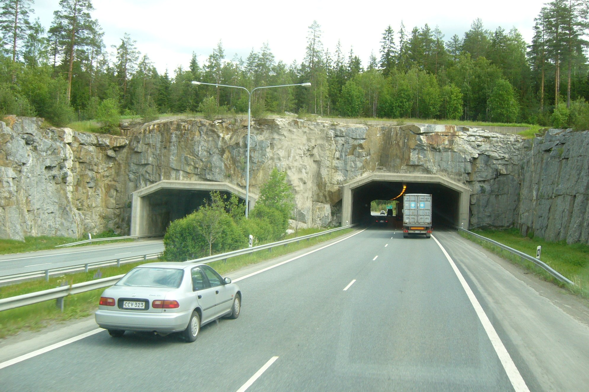 Karkunvuori tunnel on highway 9 (E63) in Tampere, Finland